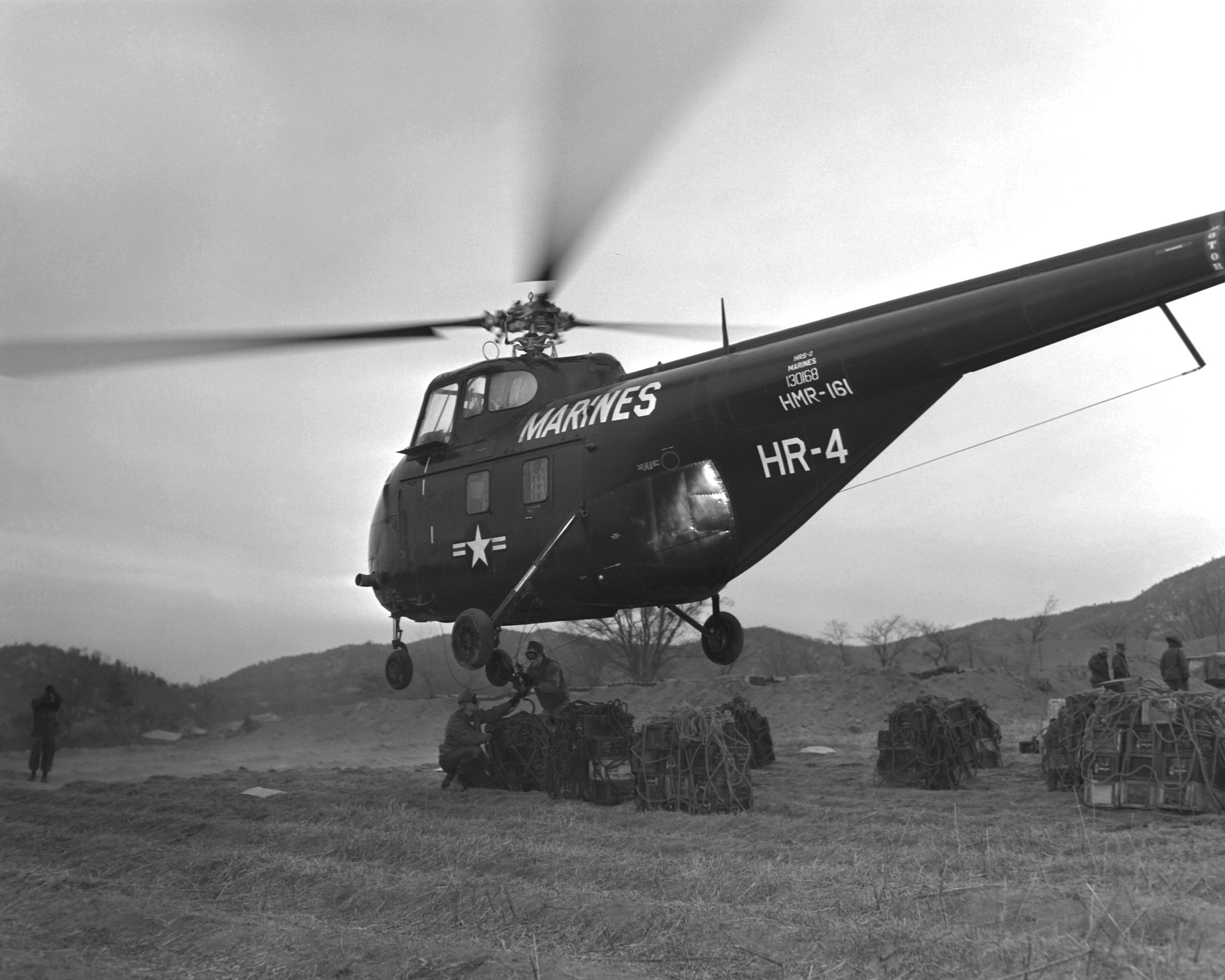 U.S. Marines hook up a cargo net on a Sikorsky HRS-2 helicopter (BuNo 130168) assigned to Marine transport squadron HMR-161 during "Operation Haylift II", which started on 23 February 1953. Over a four day period, an average of 12 HRS-2s, flew from dawn to dusk carrying a combined total of 14,330 kg (31,589 lb) per hour. Each aircraft made 27 round trips of the 24 km (15 mi) leg and carried 11 tons of supplies. Official caption: "AMMO PICKUP--Marines of the Air Delivery Platoon, hook a cargo net loaded with boxes of ammunition under the helicopter to be airlifted to the front lines. The helicopters from HMR-161 airlifted all supplies to the front for 7 days during Operation Haylift."